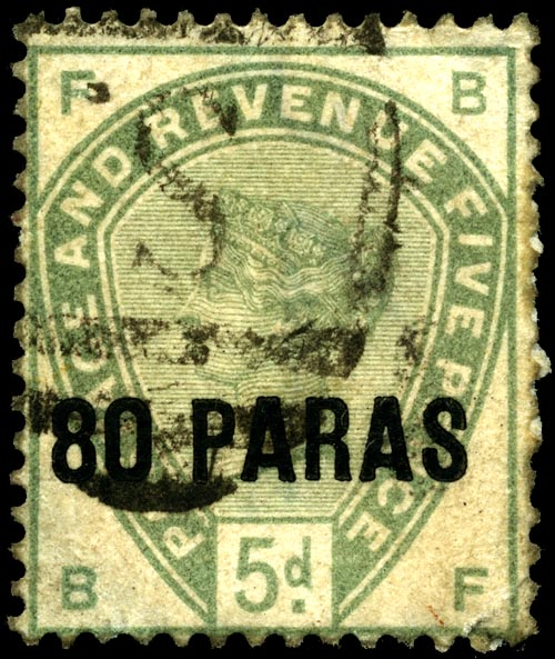 United Kingdom offices in the Turkish Empire 80-para stamp of 1885